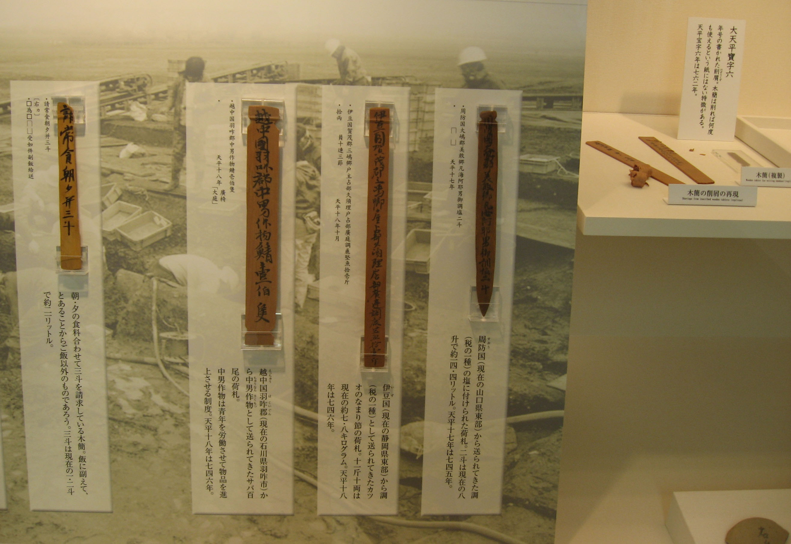 Mokkan unearthed from Heijō Palace Site